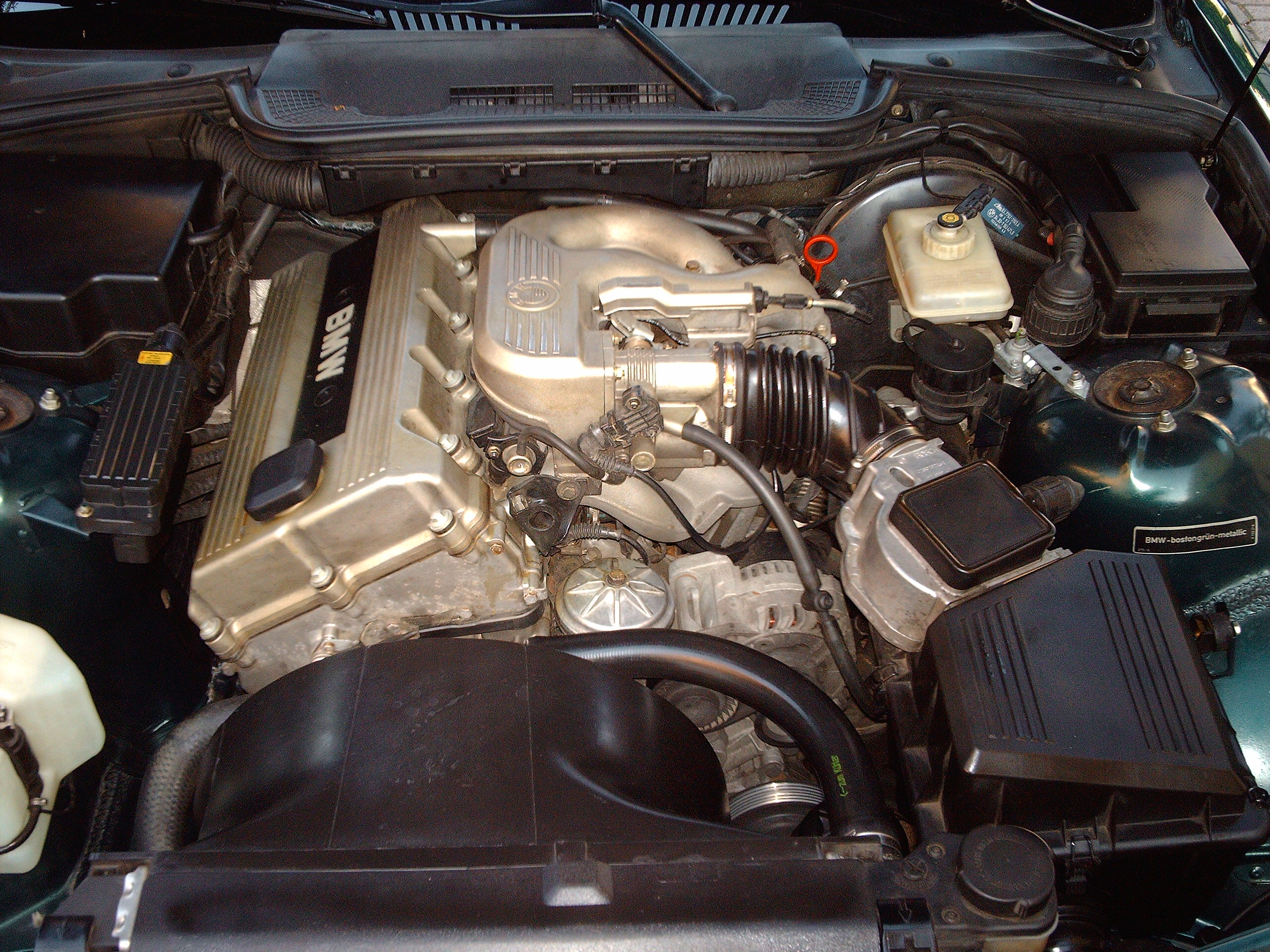 BMW-M42B18-Motor